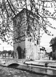 Porta Villalta